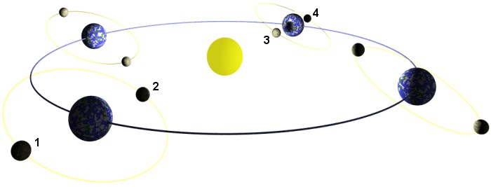 Explanation graph for the eclipse of the sun and the moon.